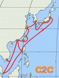 Entire route of the C2C submarine communications cable. Landing points are shown by yellow and black circles. For more information, see main article.